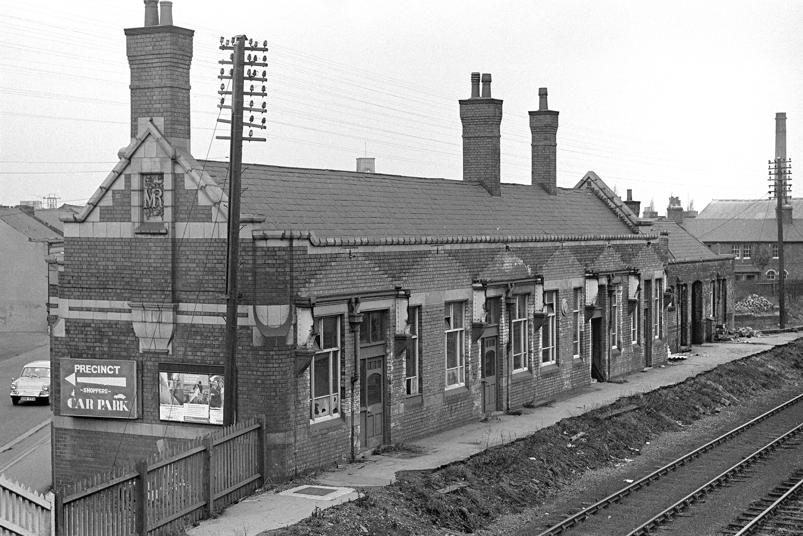 The remains of Coalville Town station, 29/3/69.